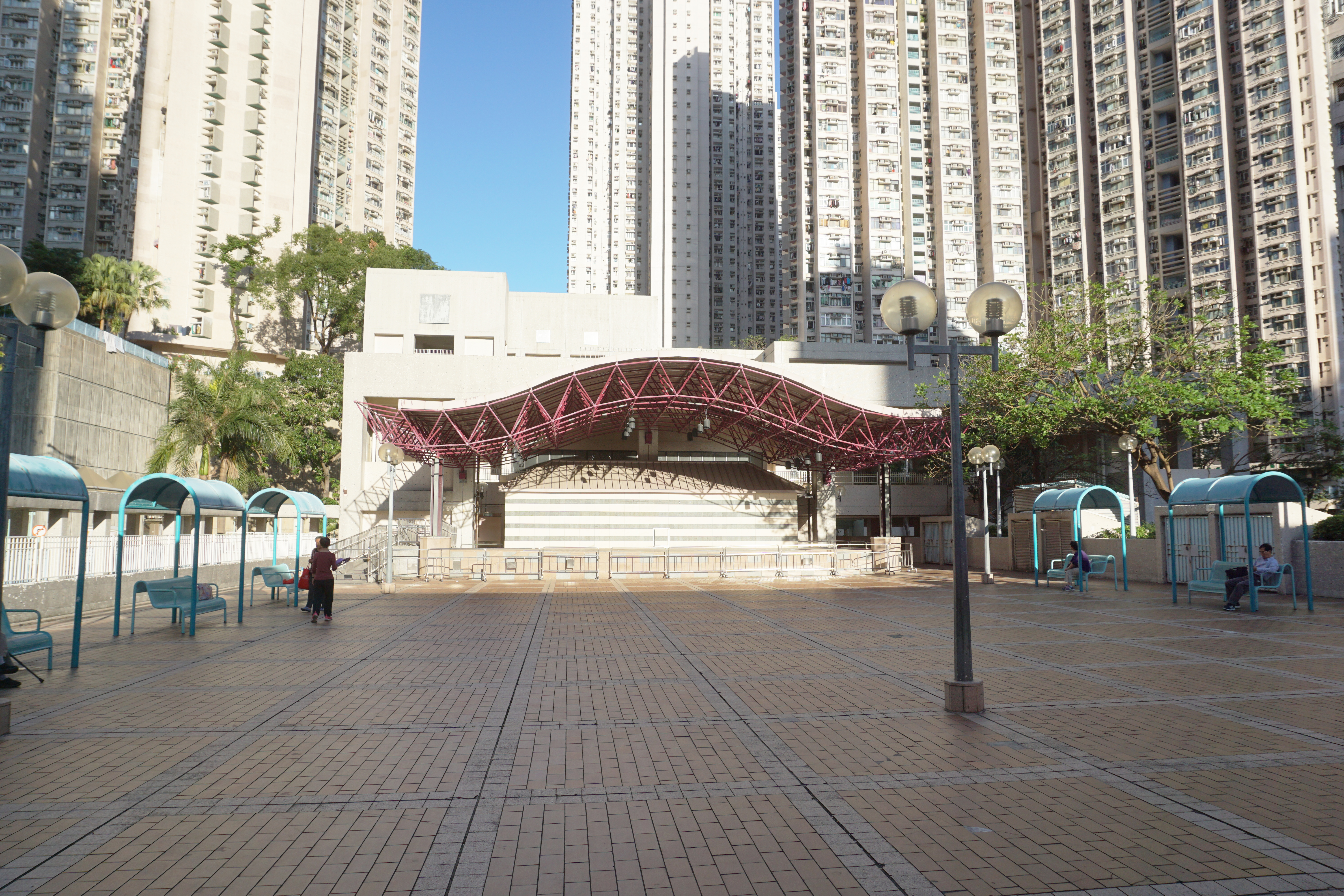 Fung Tak Estate in Diamond Hill, Hong Kong.